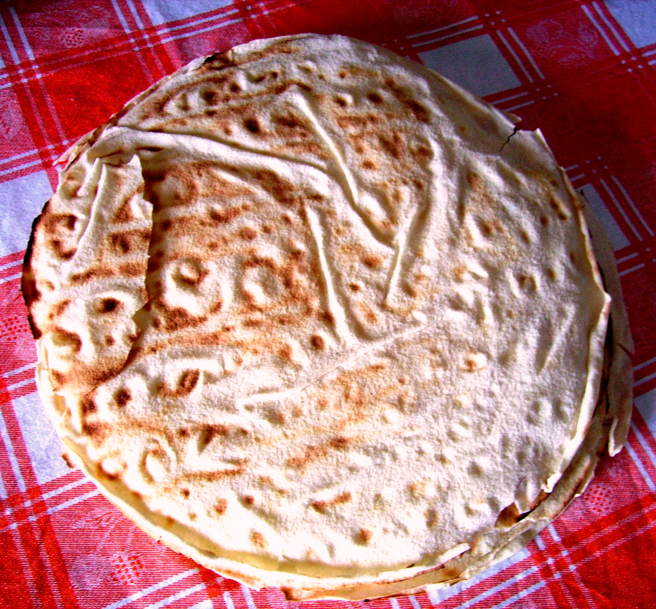 Pane carasadu (even Know as pane carasau), is a tipical sardinian bread. Own work By --Shardan 16:57, 14 September 2007 (UTC)